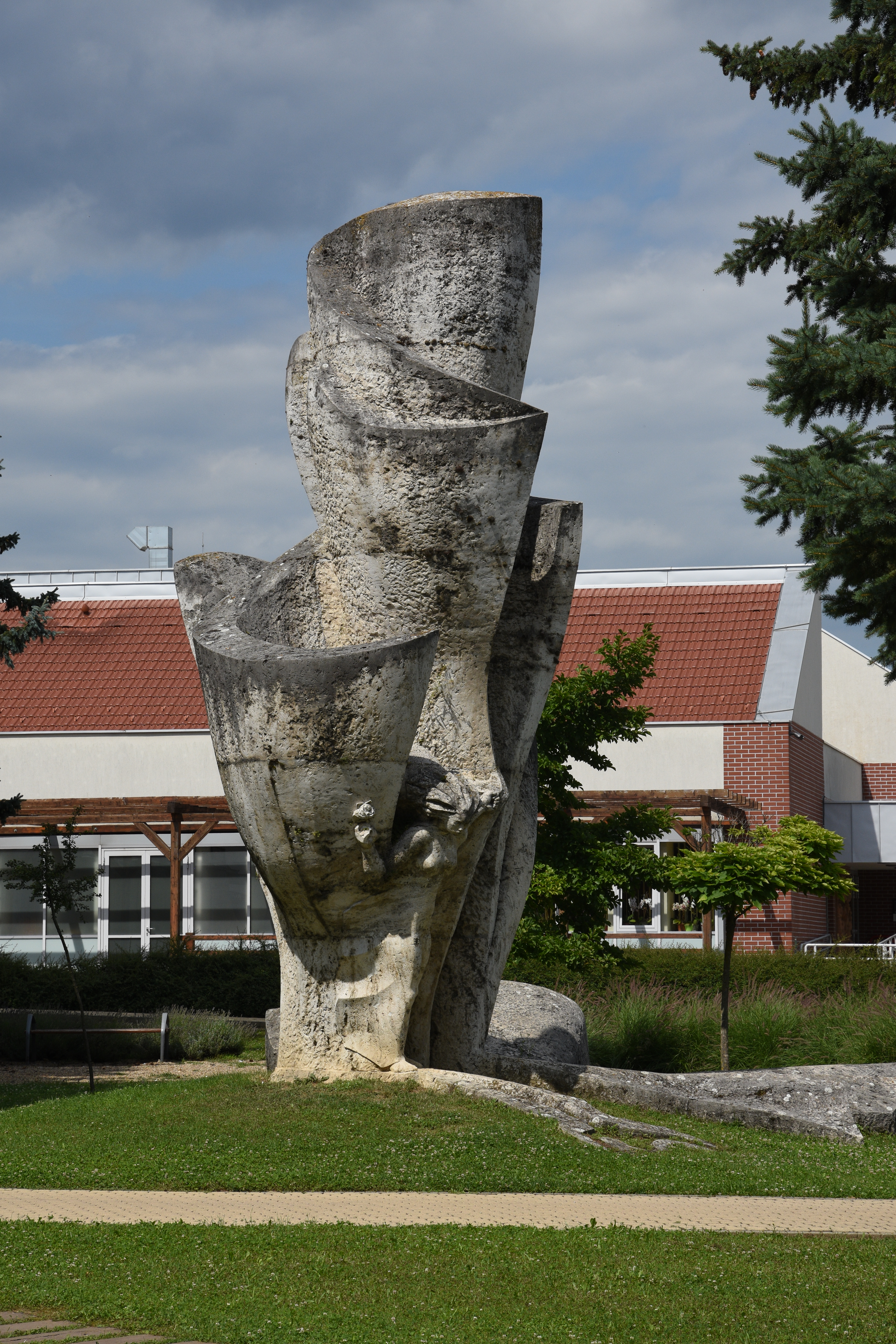 Sándor Rétfalvi